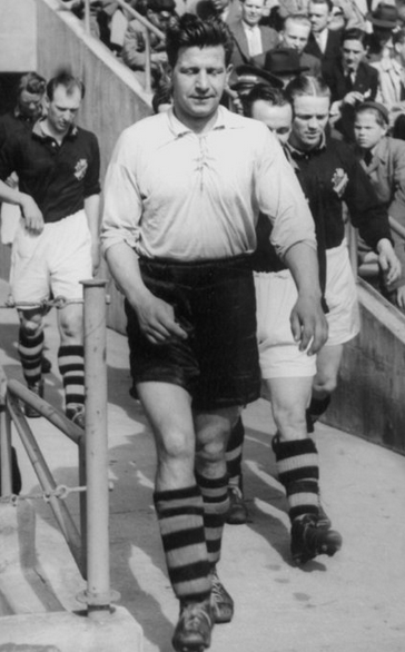 Sven Jonasson, record holder of most goals and appearances in Swedish football team IF Elfsborg. The picture was taken before Sven´s 300 consecutive game in Allsvenskan.The image qualifies as a photographic picture (fotografisk bild) since there is nothing original about the photo and the fact that anyone could have taken it. Therefore since this photographic picture was taken in 1941, thus before 1969, it is in the Swedish public domain according to the Swedish transitional regulations of 1994.